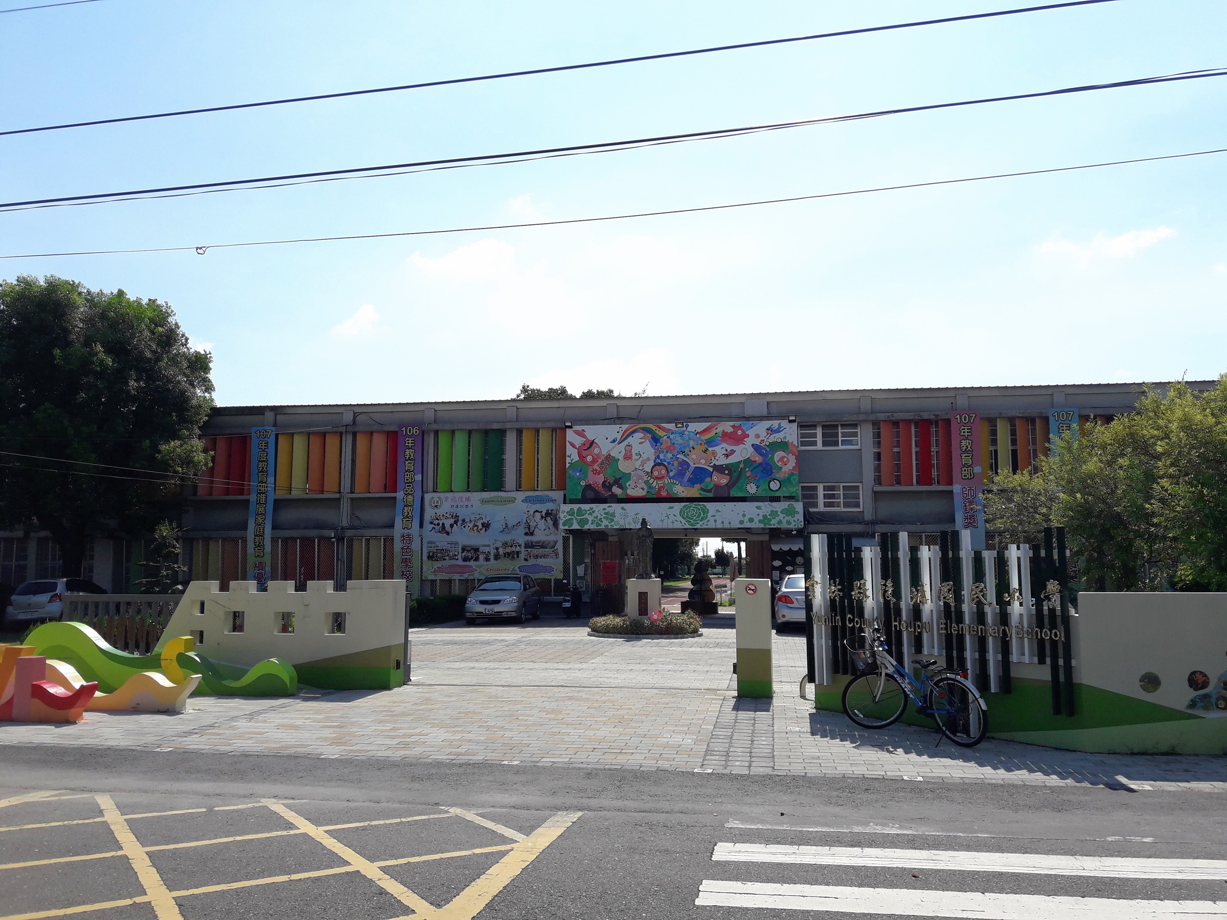 Houpu Elementary School in Tuku, Yunlin County, Taiwan